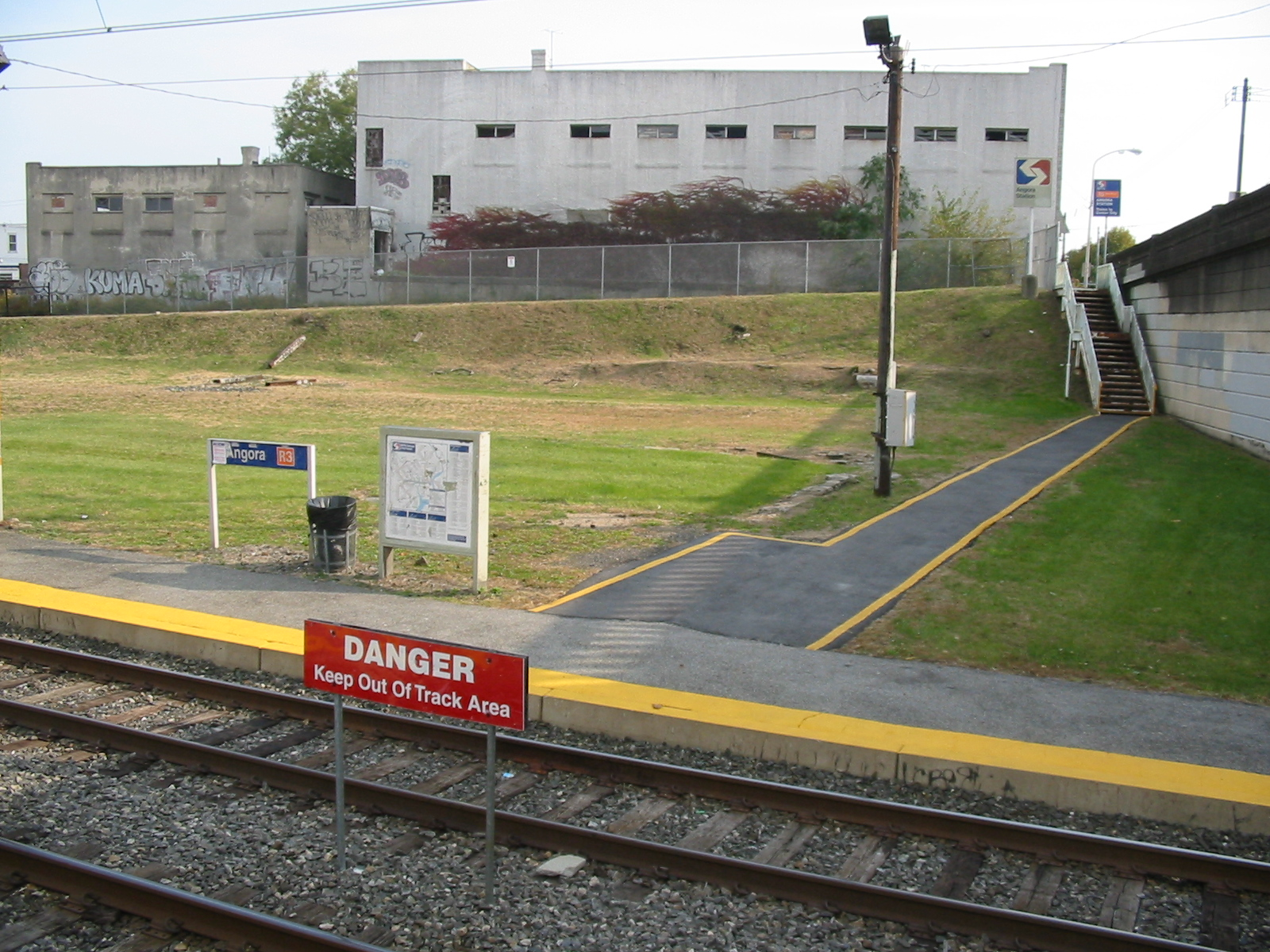 Angora railway station on SEPTA Route R3 in West Philadelphia.